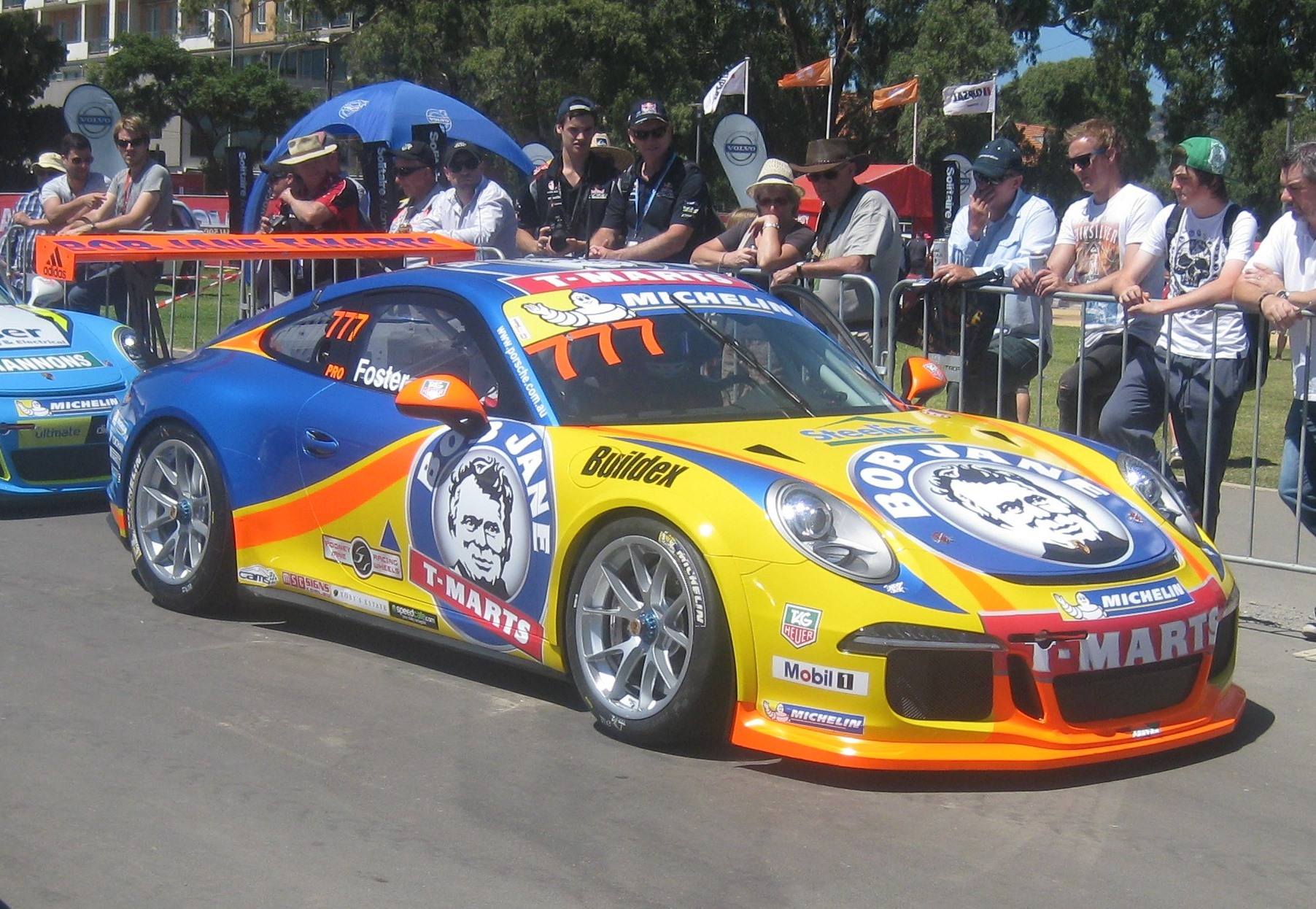 Porsche 911 GT3 Cup Type 991 of Nick Foster, 2014 Australian Carrera Cup Championship, Adelaide Parklands Circuit.